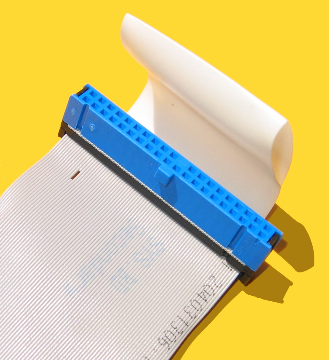 IDE PATA CS CABLE SELECT